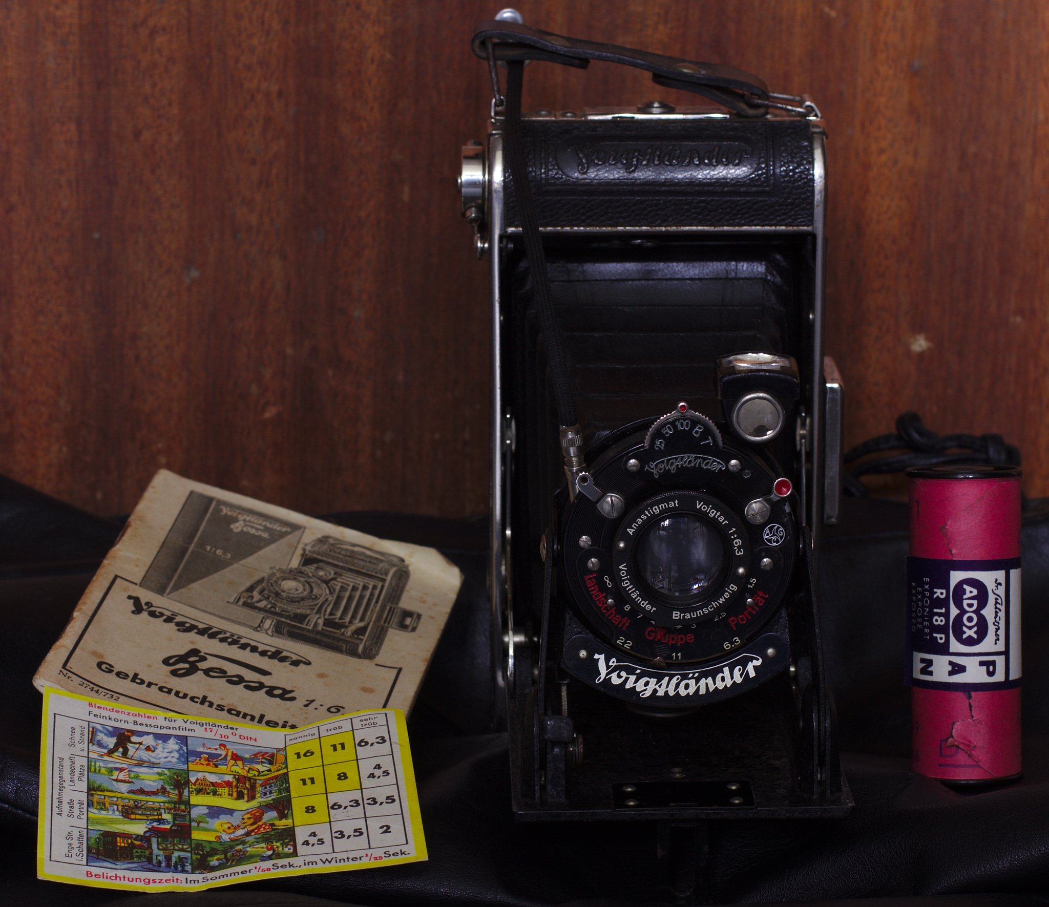 A Voigtländer Bessa camera from the 1930s.